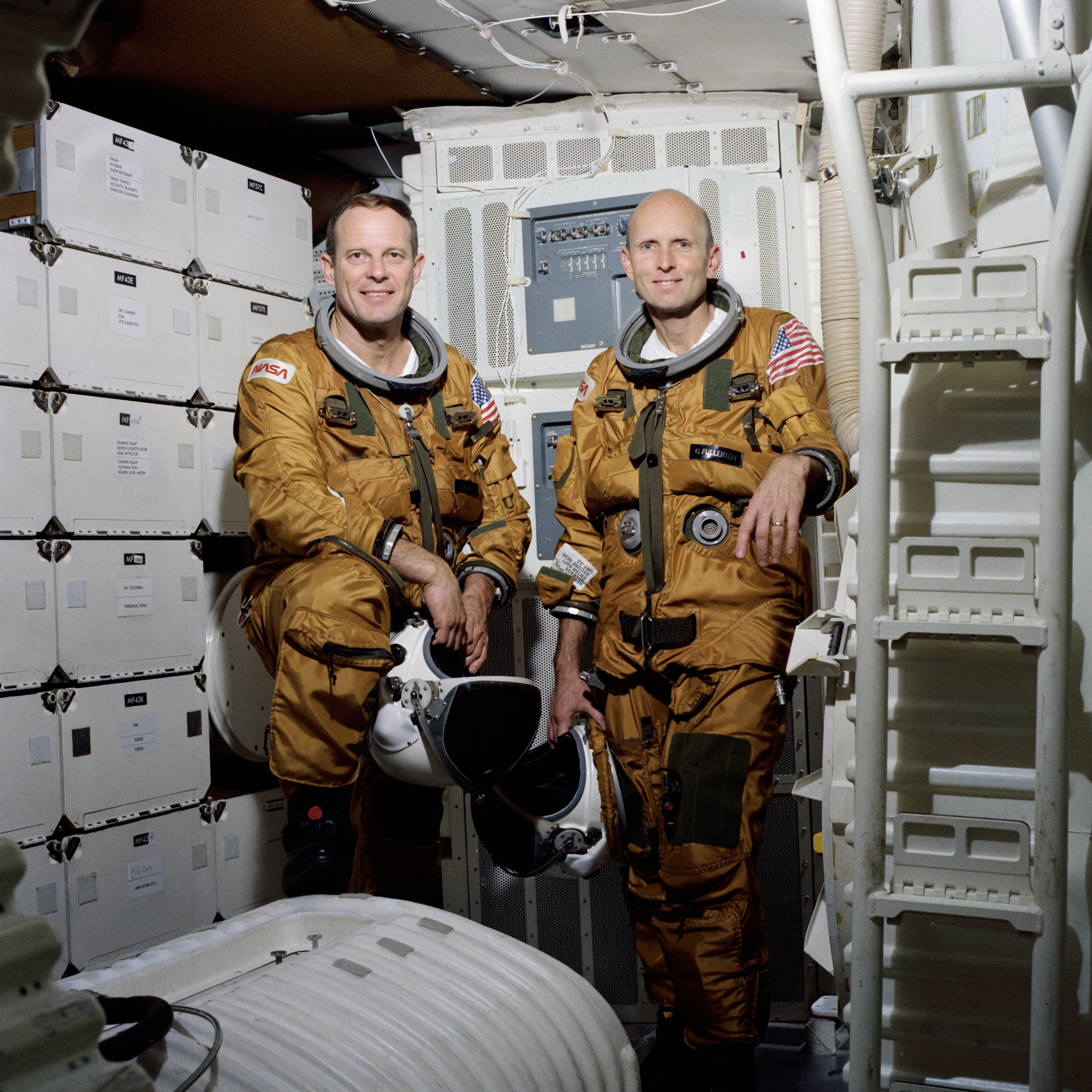 Official portrait of STS-3 crewmembers Jack R. Lousma (commander), left, and C. Gordon Fullerton (pilot) posing in ejection escape suits (EES) inside the shuttle trainer.